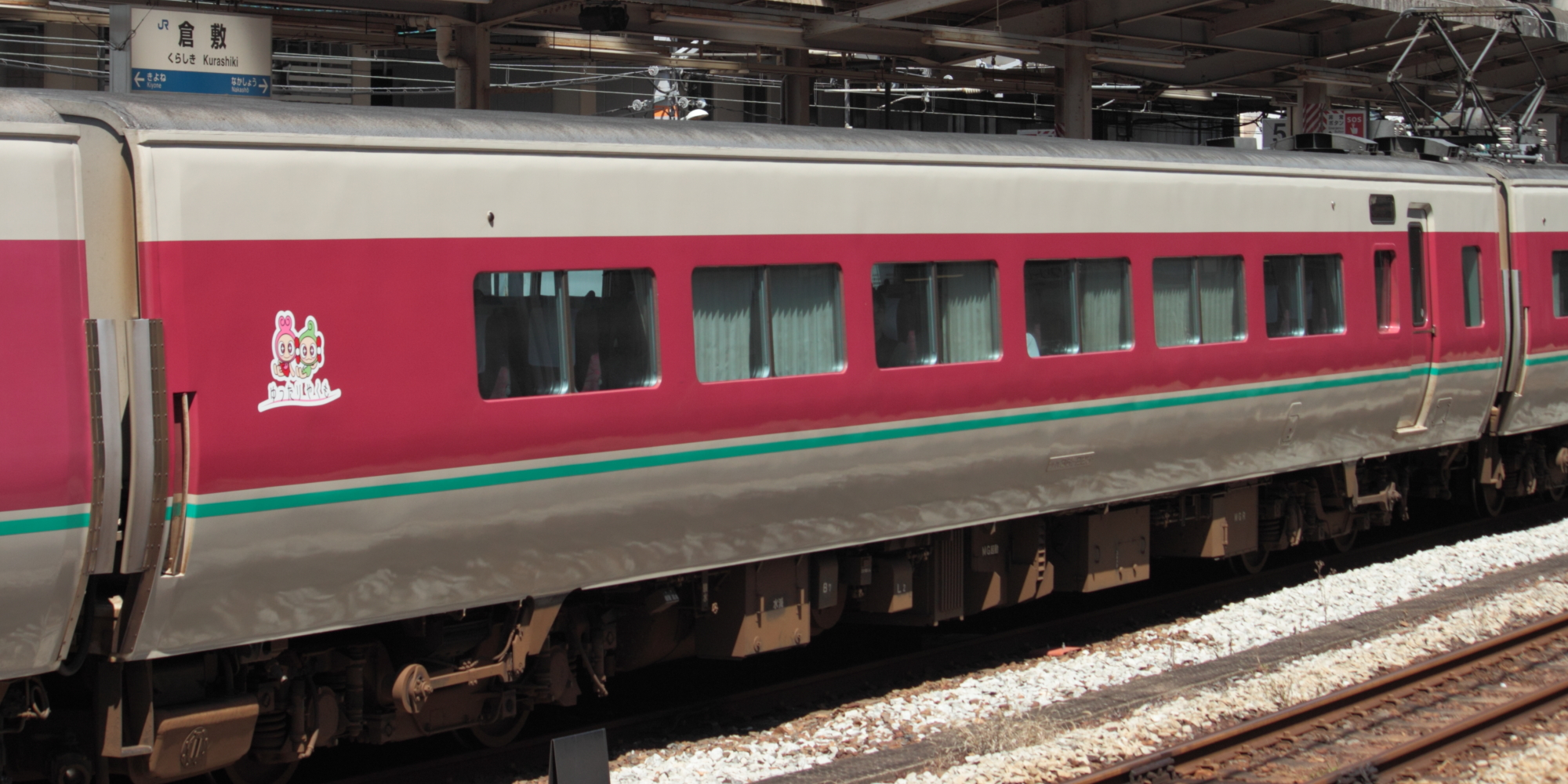 JRWest Series 381(SaHa381-223)in Kurashiki Station